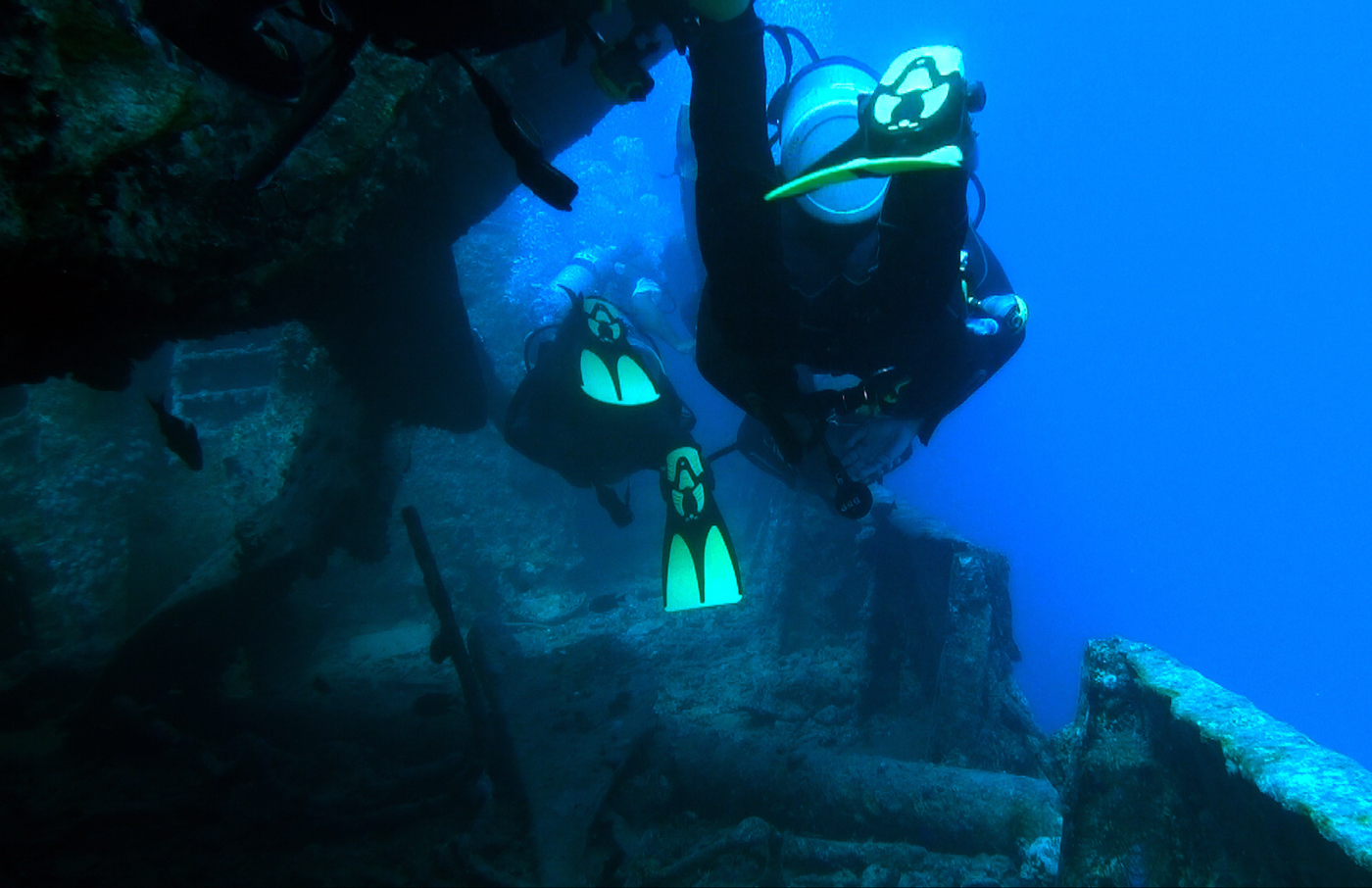 Divers touring a Second World War ShipWreck